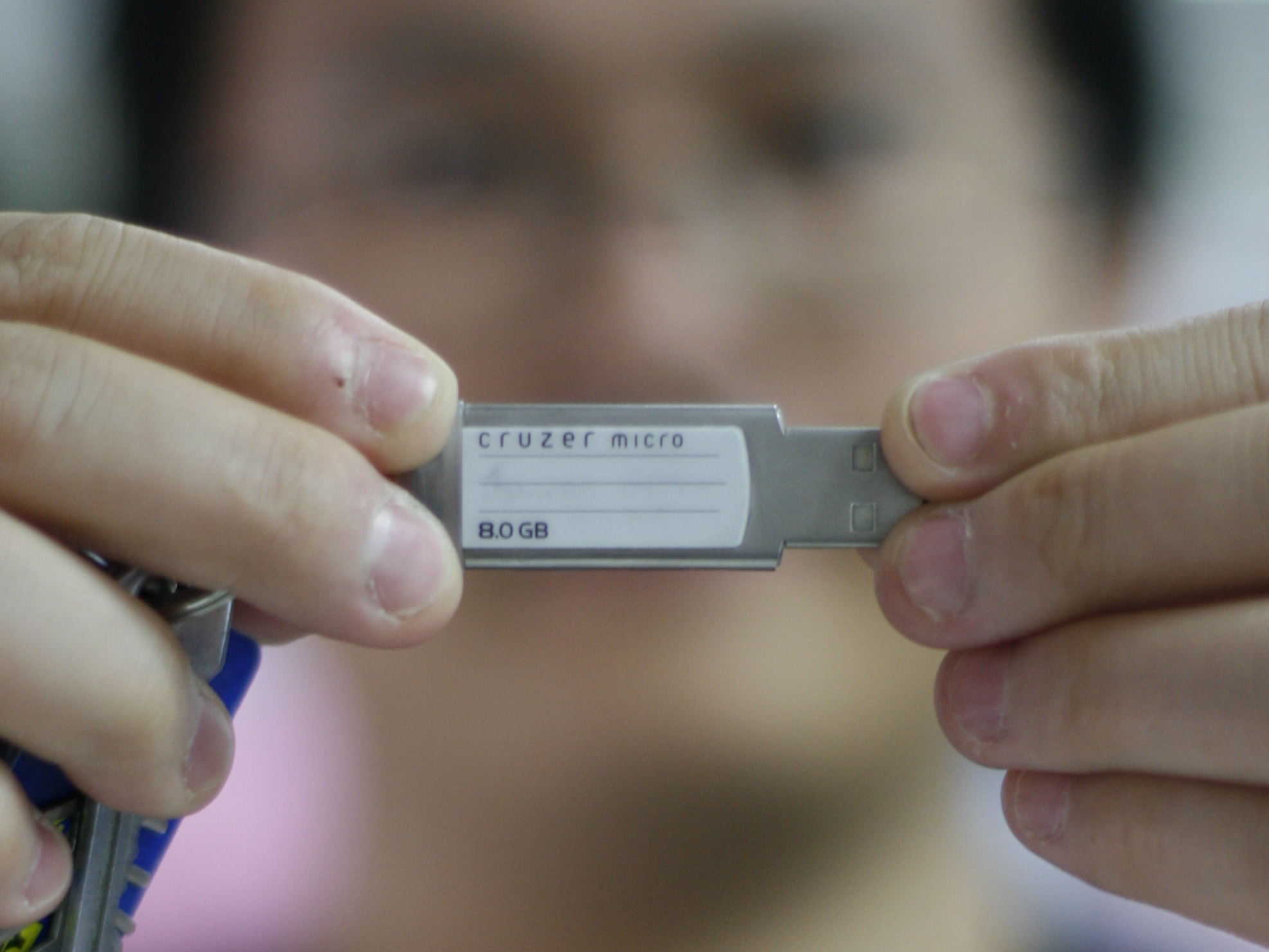 Man holding a USB flash drive.